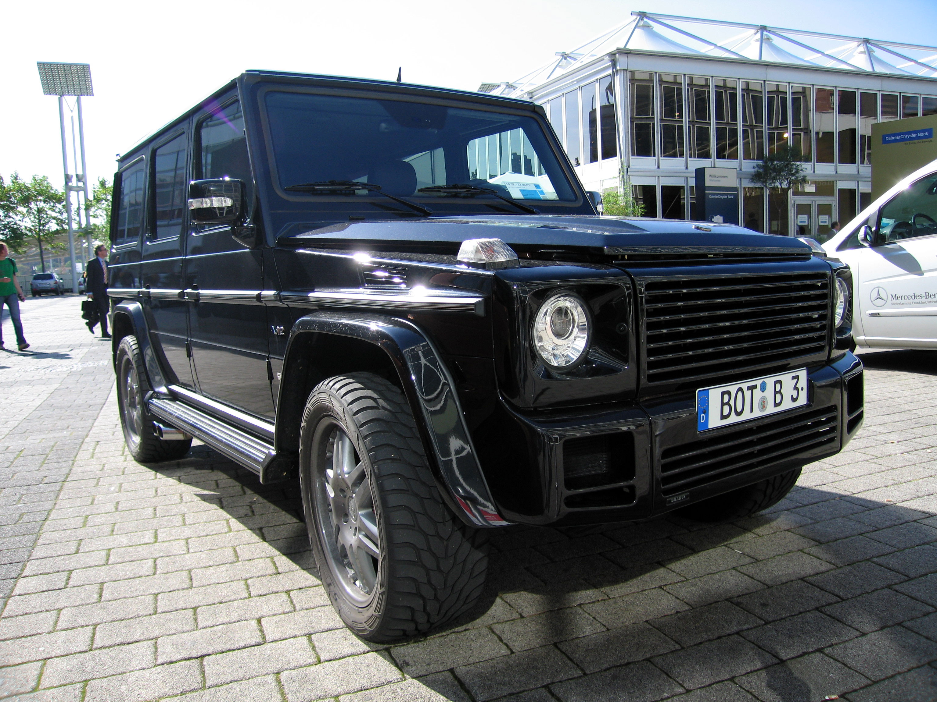 Brabus G V12 Biturbo at the IAA 2007